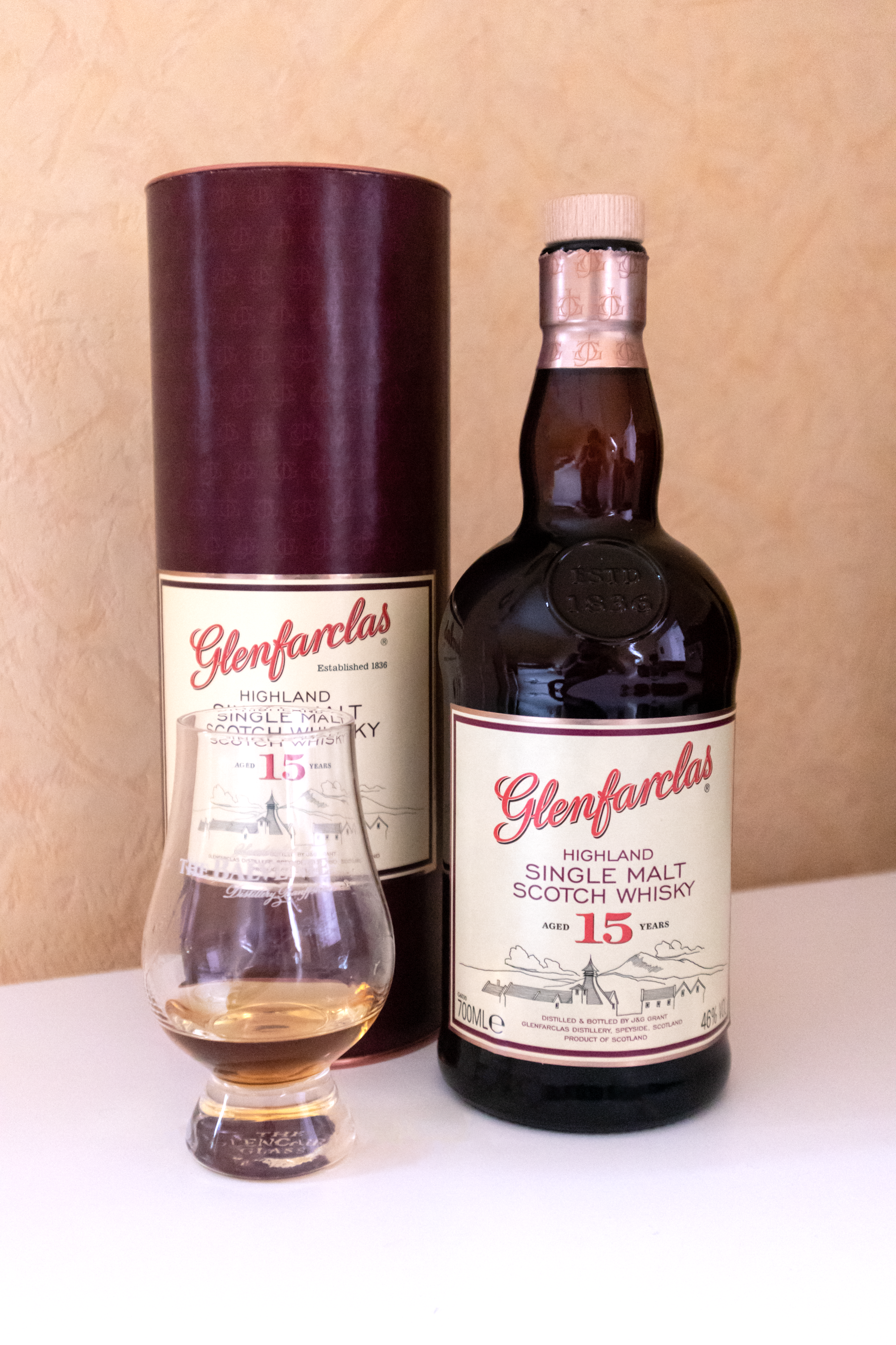 A photograph of a bottle of fifteen year old Glenfarclas including glass.